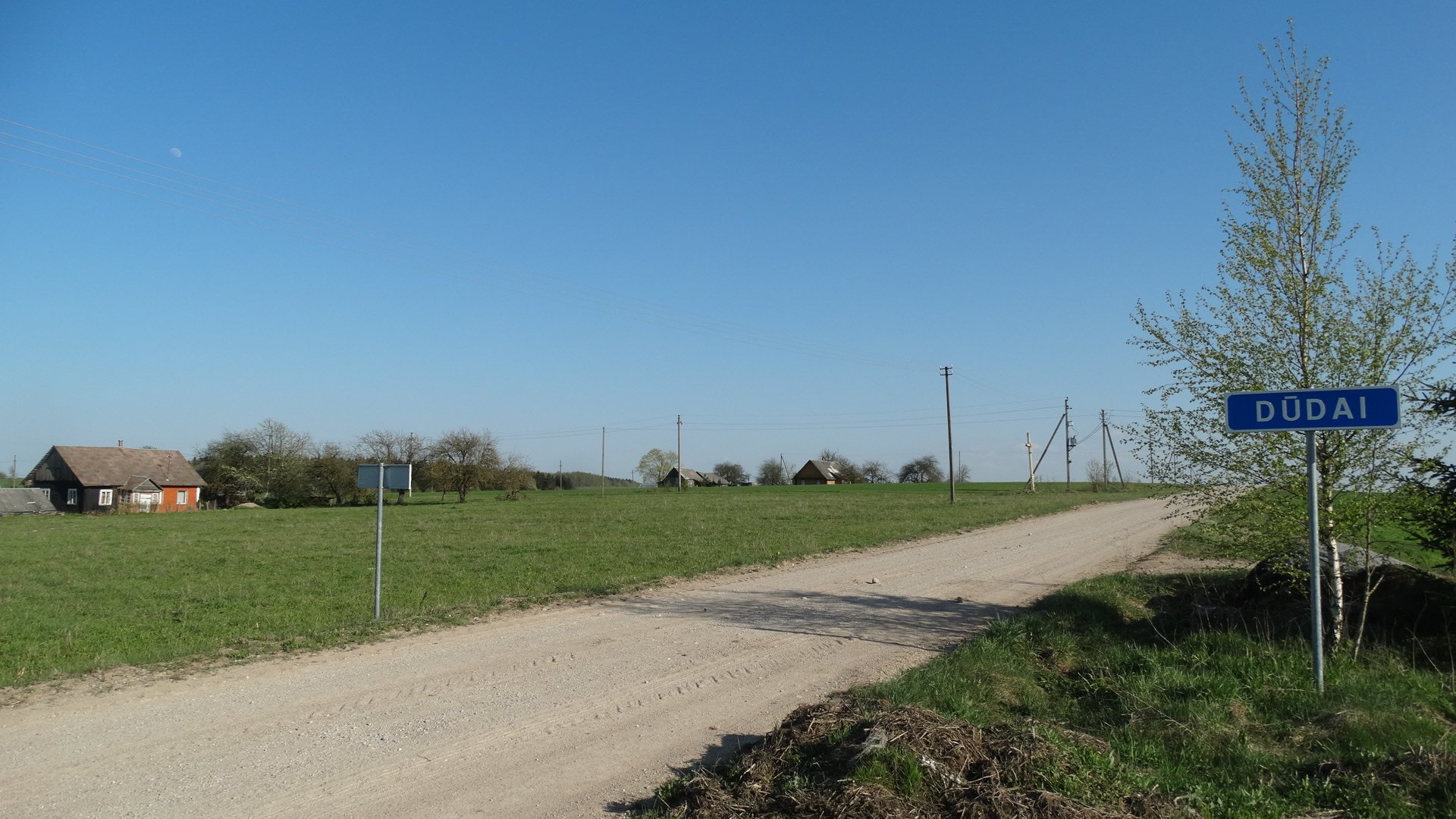 Dūdai, Širvintos District, Lithuania